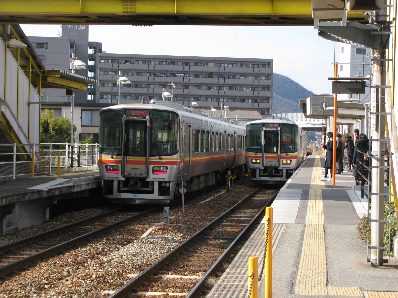 Platform of Harima-Takaoka Station in Himeji, Japan